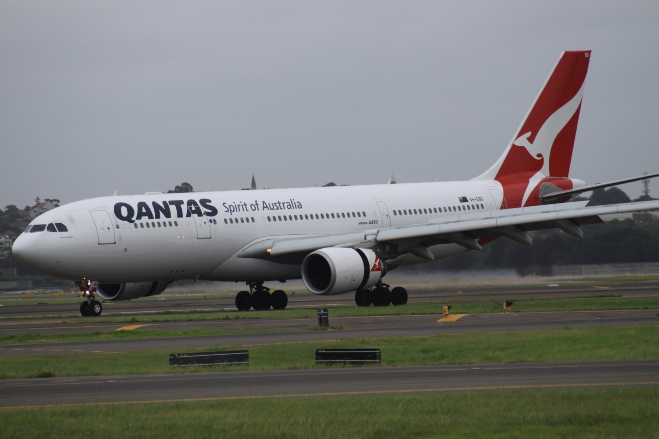 At Sydney Kingsford Smith